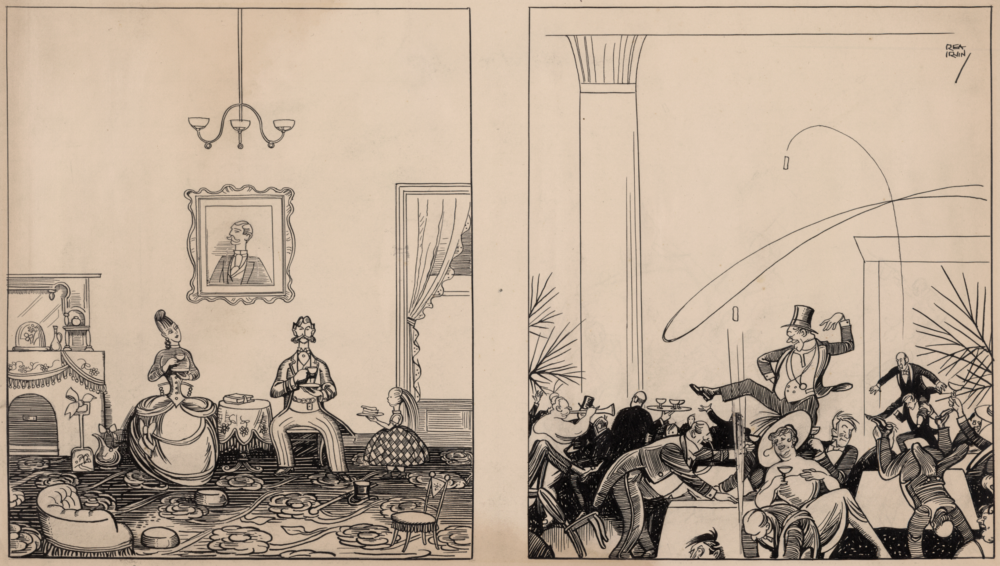 "A happy New Year 1867 - a happy New Year 1917" Cartoon by Rea Irvin for New Years 1917, caricaturing the change in customs from 50 years earlier. Two-panel cartoon. The 1867 panel shows a proper Victorian family -- father, mother, and little girl -- in their parlor, taking tea. The 1917 panel shows a riotous party in a restaurant with champagne corks popping, a man dancing on the table, two men playing leapfrog, and a heavy lady in a strapless dress drinking champagne.